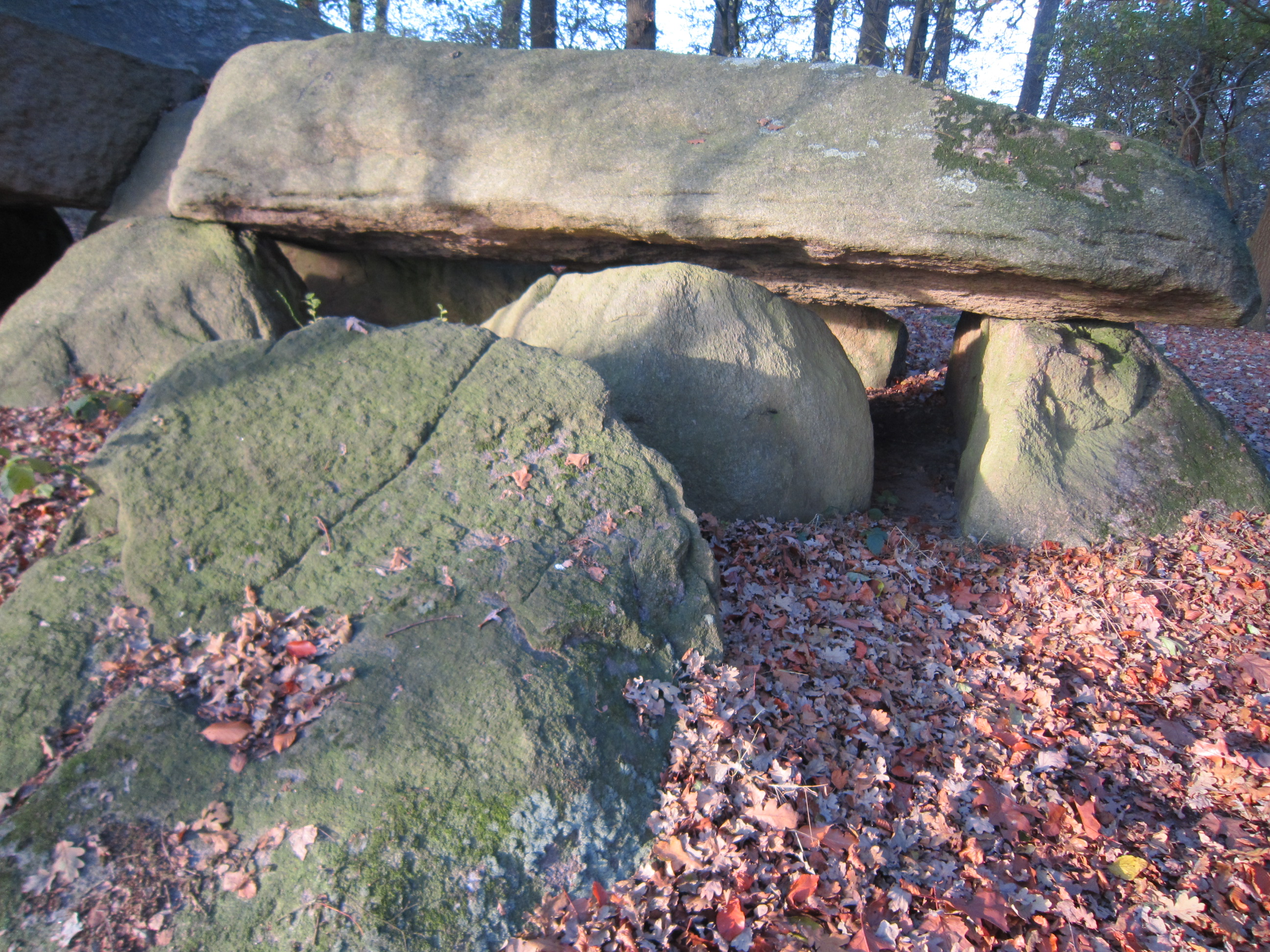 Dolmen "Teufelssteine" (Devil's Stones) in Bischofsbrück (Landkreis Cloppenburg, Lower Saxony)